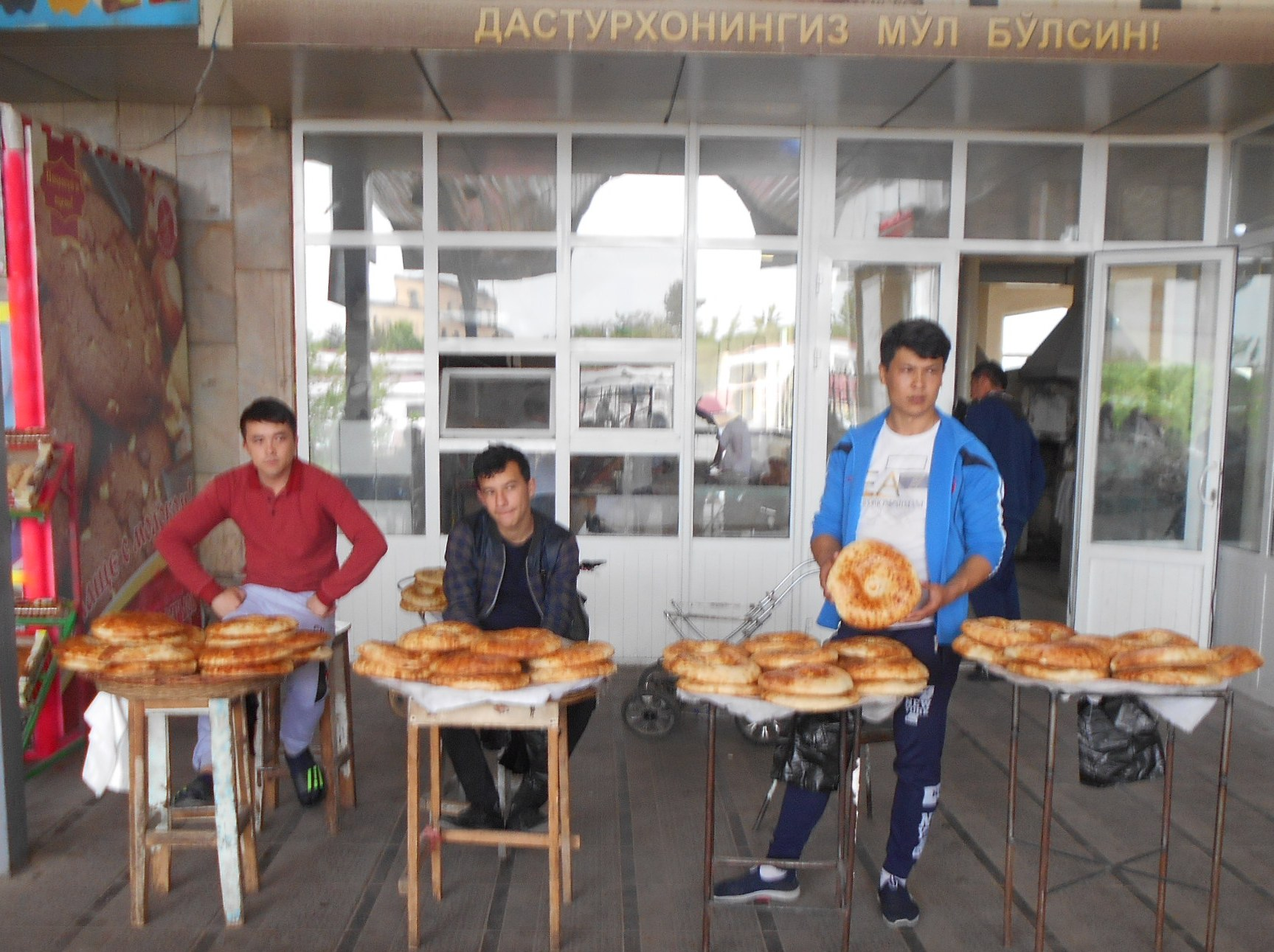 Bread sellers at the Chorsu Bazar